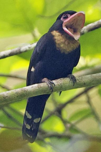 Dusky Broadbill Corydon sumatranus Nominate race Panti Forest, Johor, Malaysia 22nd. April 2011 690V1292